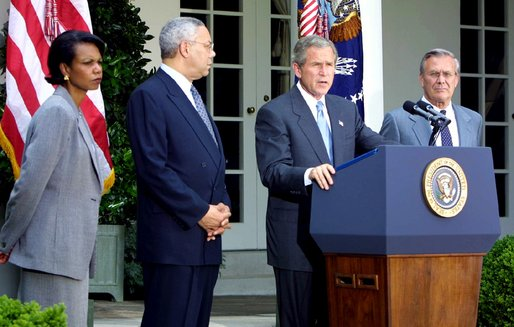 U.S. President George W. Bush (at podium) discusses his plan for peace in the Middle East as National Security Advisor Condoleezza Rice (left), Secretary of State Colin Powell (center) and Secretary of Defense Donald Rumsfeld (right) stand by his side in the White House Rose Garden on June 24, 2002.